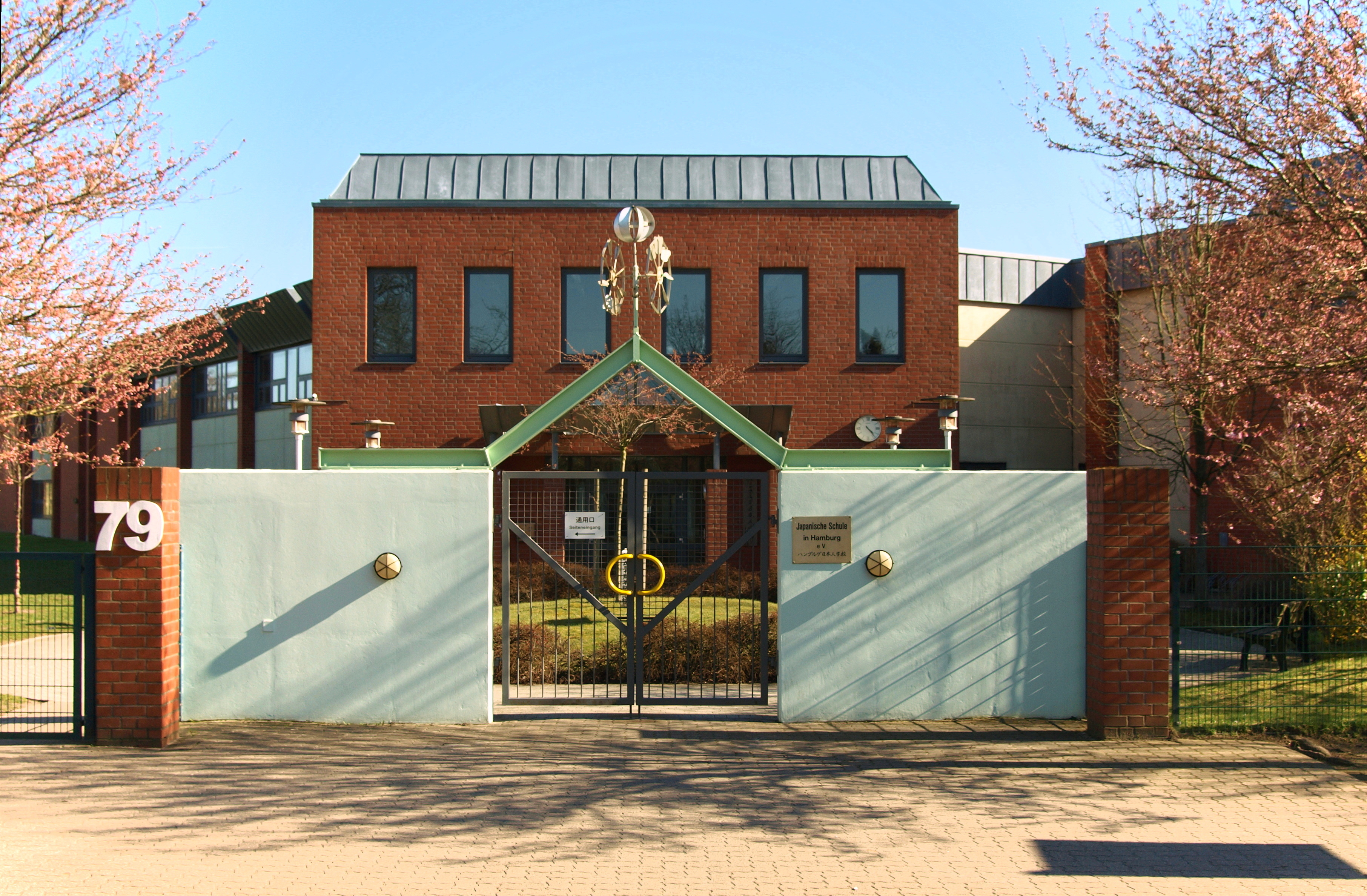 Main entrance of the Japanese School Hamburg, in Halstenbek, District of Pinneberg, Germany.